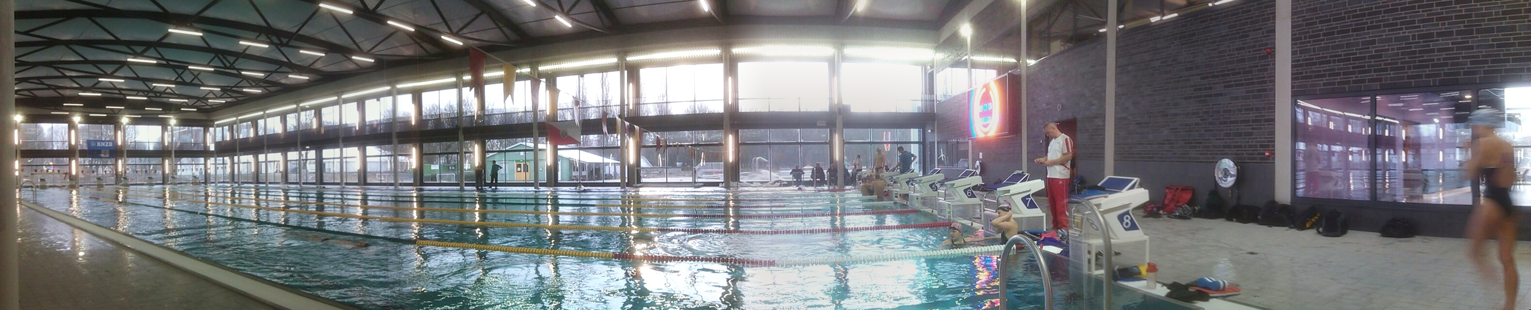 Krommerijnbad Utrecht. Here the EYOF 2013 Swimming will be held. Panorama picture created with my Huawei Ideos X5 and the app PANO.